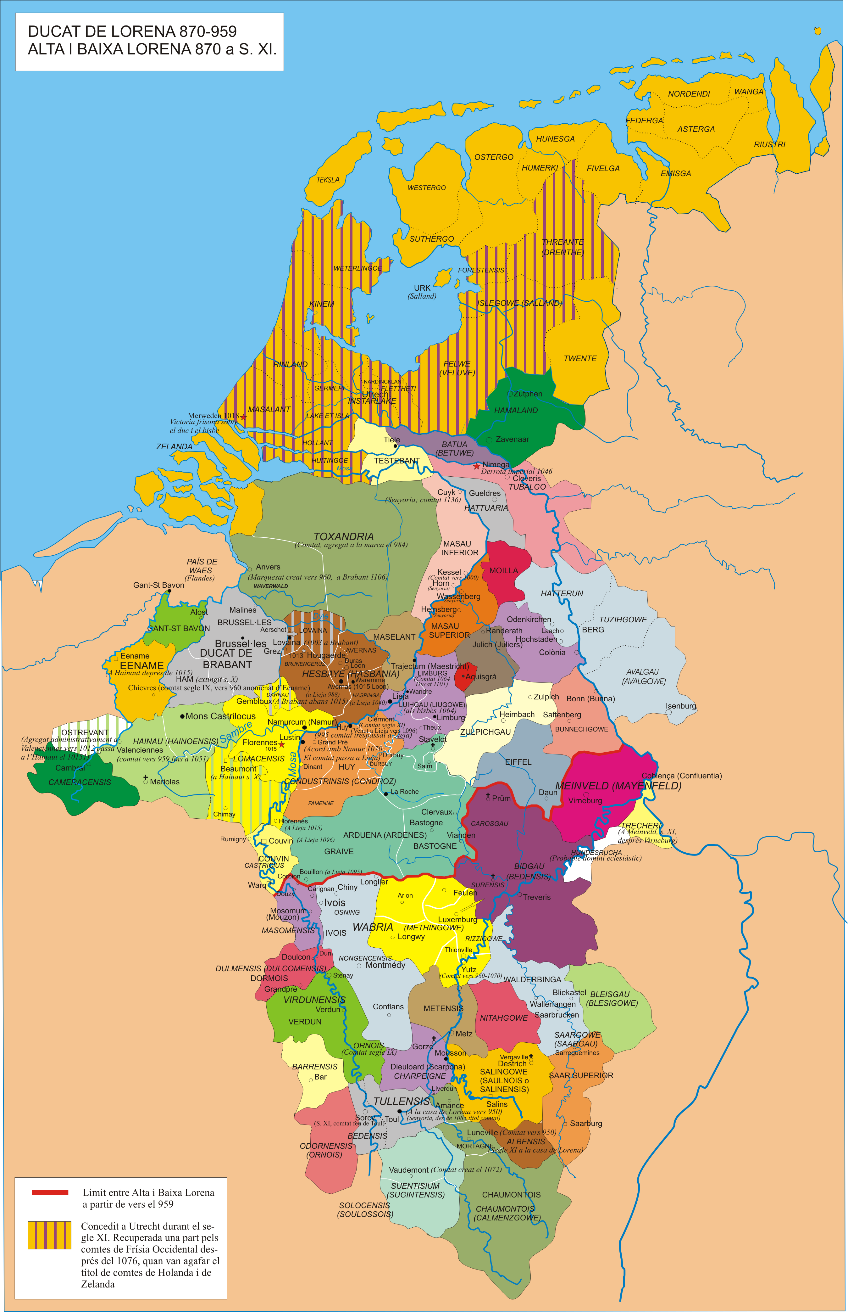 Historical map of the Duchy of Lorraine 870-959 and Duchies of Upper and Lower Lorraine 959 to XI century